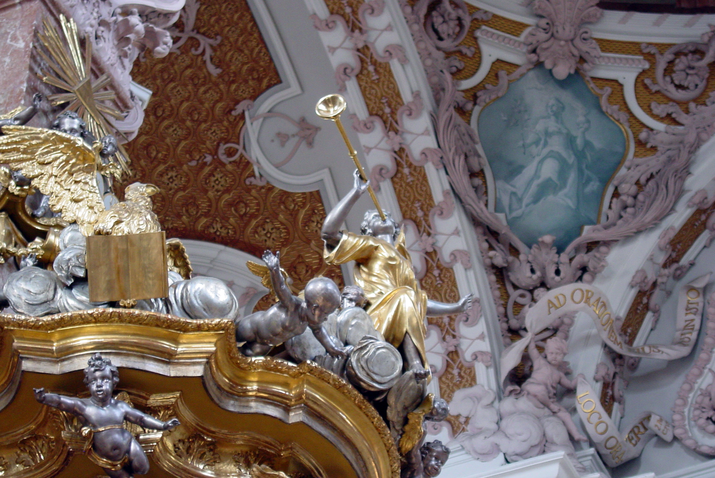 Cathedral of St. James in Innsbruck, Austria